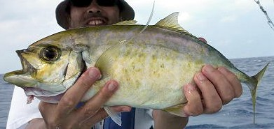 Carangoides plagiotaenia, Solomon Islands